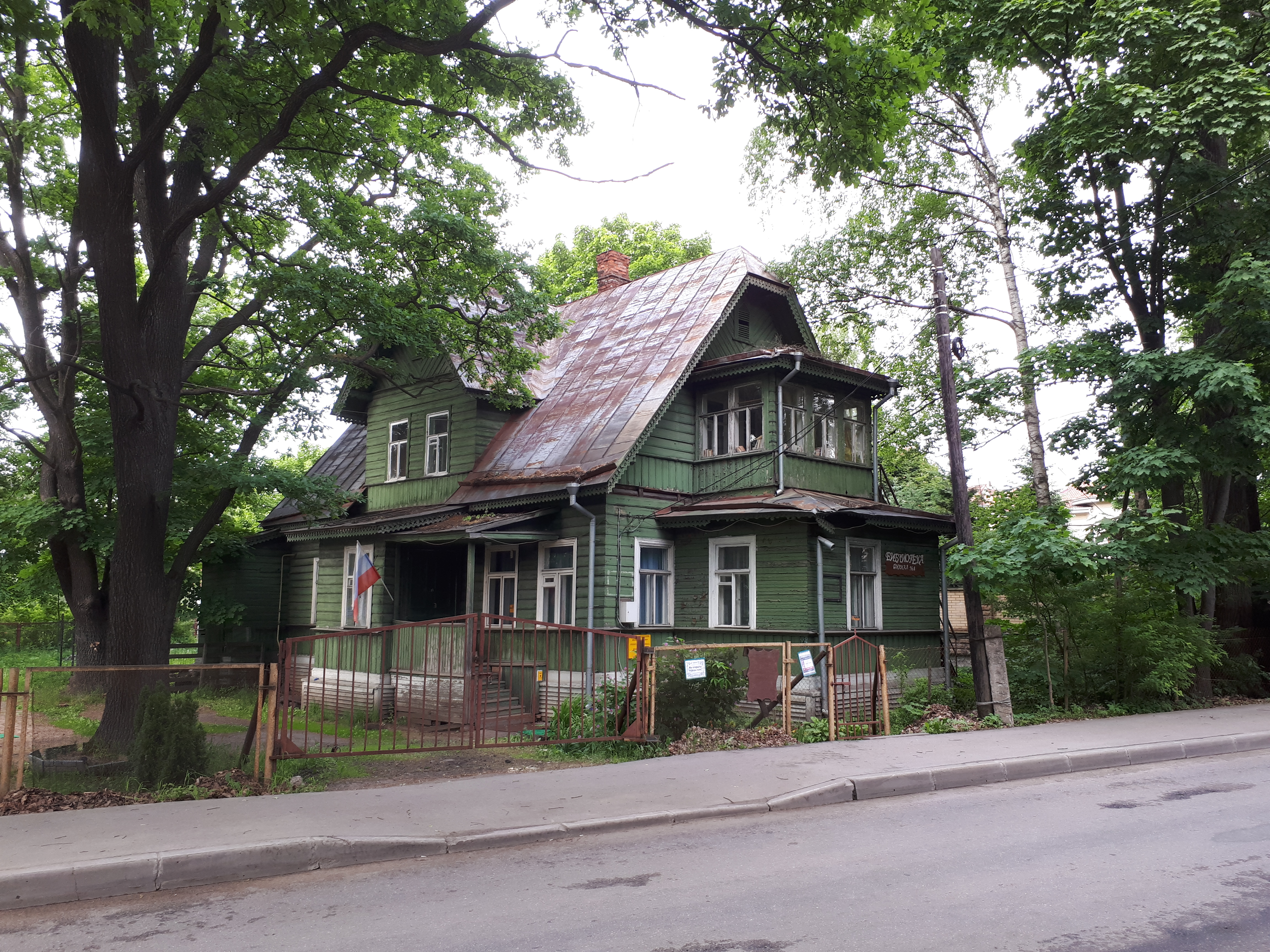 Residential house (wooden): Elizavetinskaya street, 8. Vyborgsky district, St. Petersburg.